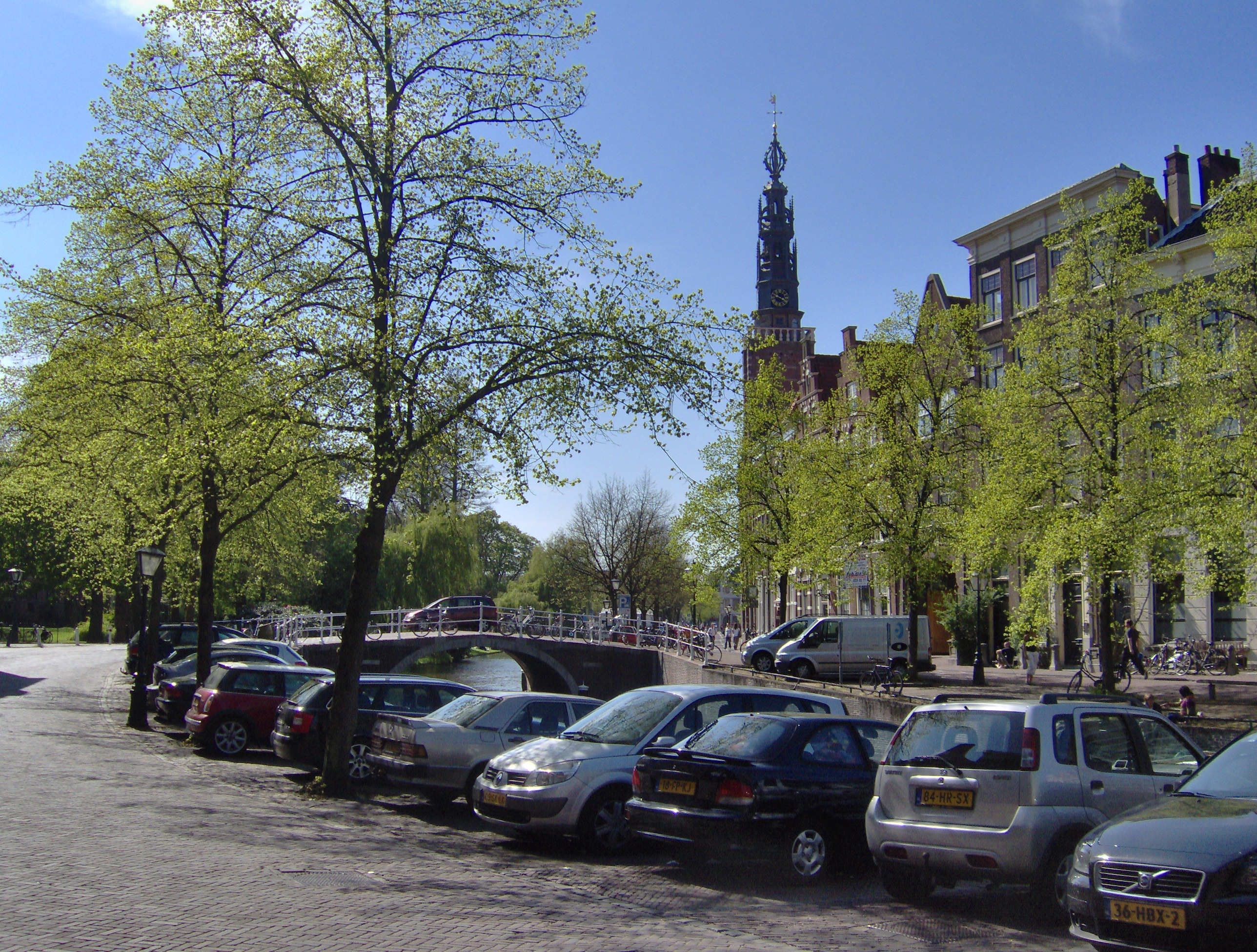 The street Steenschuur in Leiden, The Netherlands. This street was the scene of the Leiden gunpowder disaster at January 12, 1807. The church tower belongs to the Sint Lodewijkskerk.